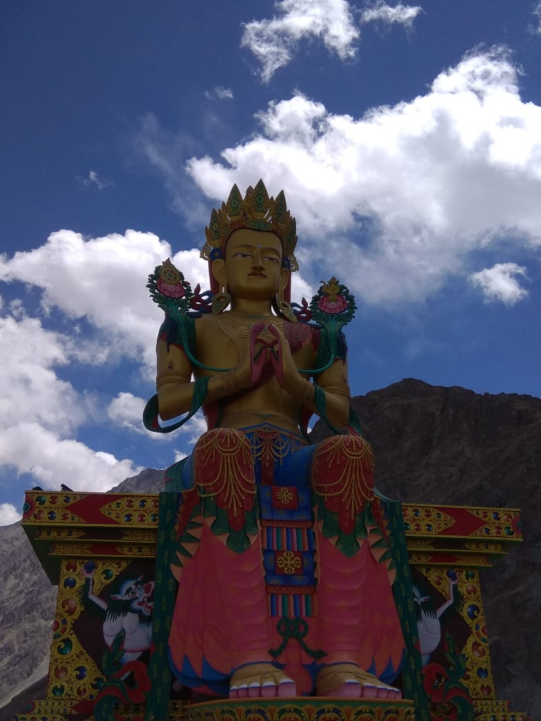 Maitreya Buddha Near Nubra valley in Ladakh